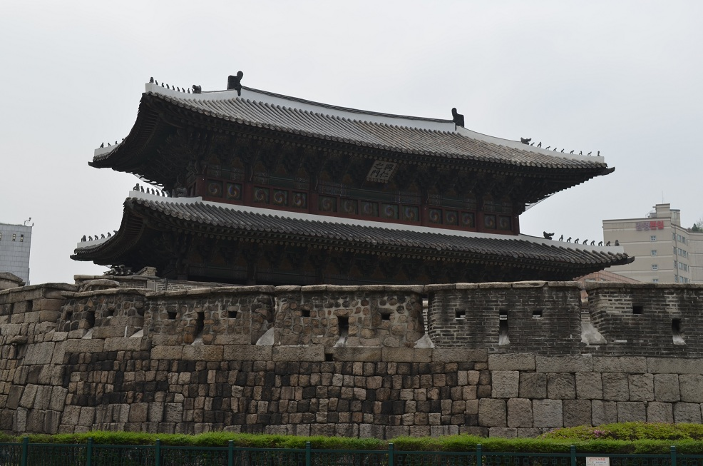 Photo of Heunginjimun Gate, Seoul, South Korea. Also known as East Gate, or Dongdaemun. Photographed May 12, 2012.